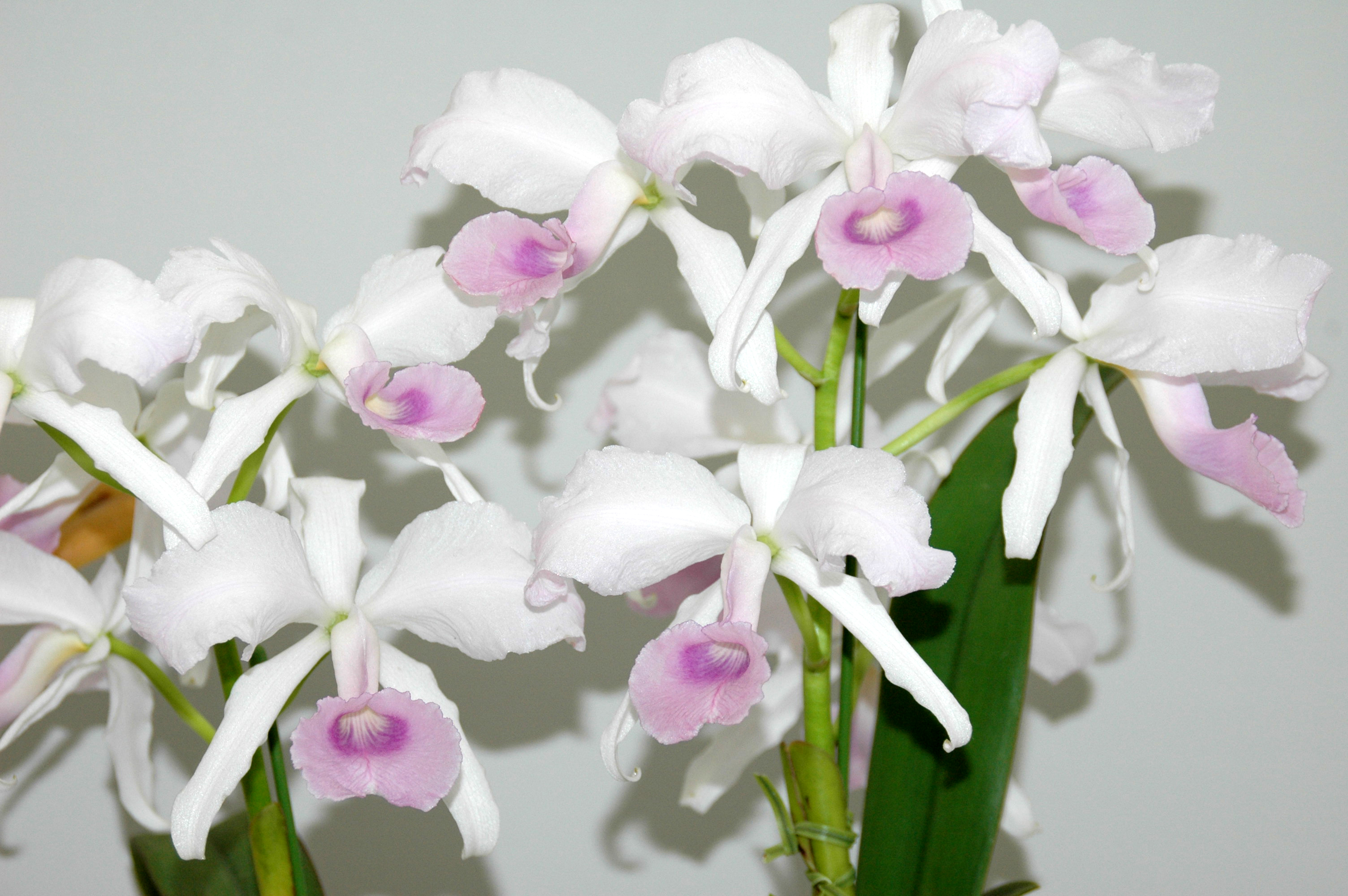 Cattleya lawrenceana forma delicata 'El Paraiso' NS (96 X 90mm) 2 stems 12 flowers. Okayama Orchid Festival 2009 in Okayama Dome, Okayama Japan.